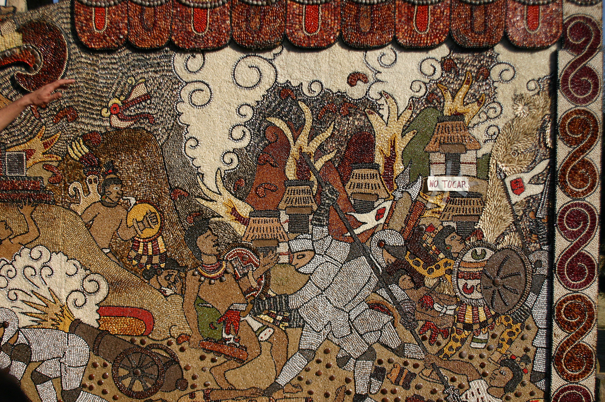 Mural made of seeds in Tepoztlan church entrance, Tepoztlan, Mexico, December 2006